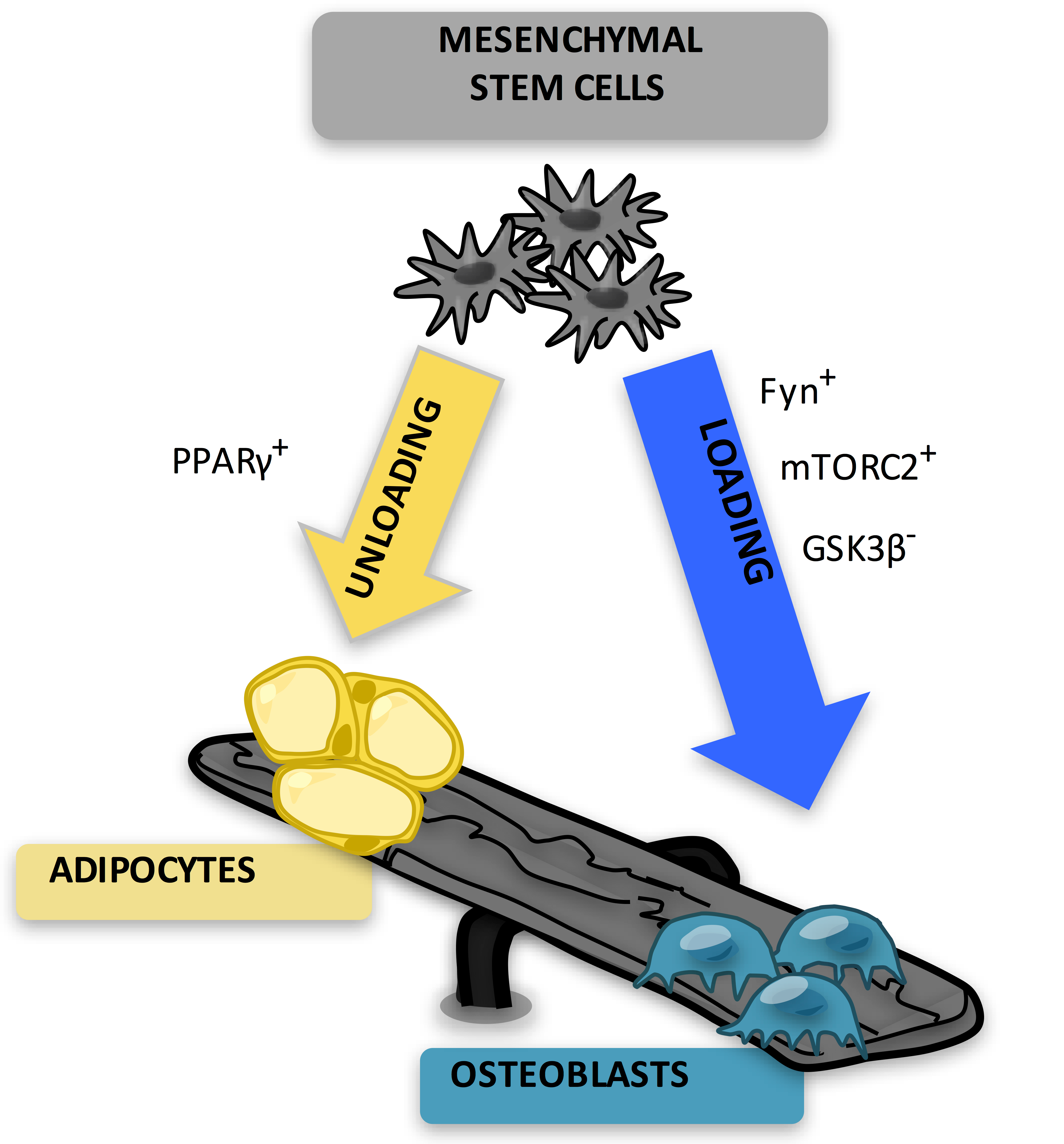 The MSC can differentiate into the osteoblast (bone) or adipocyte (fat) lineage as well as other lineages (e.g. muscle). Physical factors such as mechanical strain- the in vitro equivalent of exercise- repress adipogenic differentiation. Transcription factors can promote adipogenic (PPARg) or osteogenic (mTORC2) differentiation.